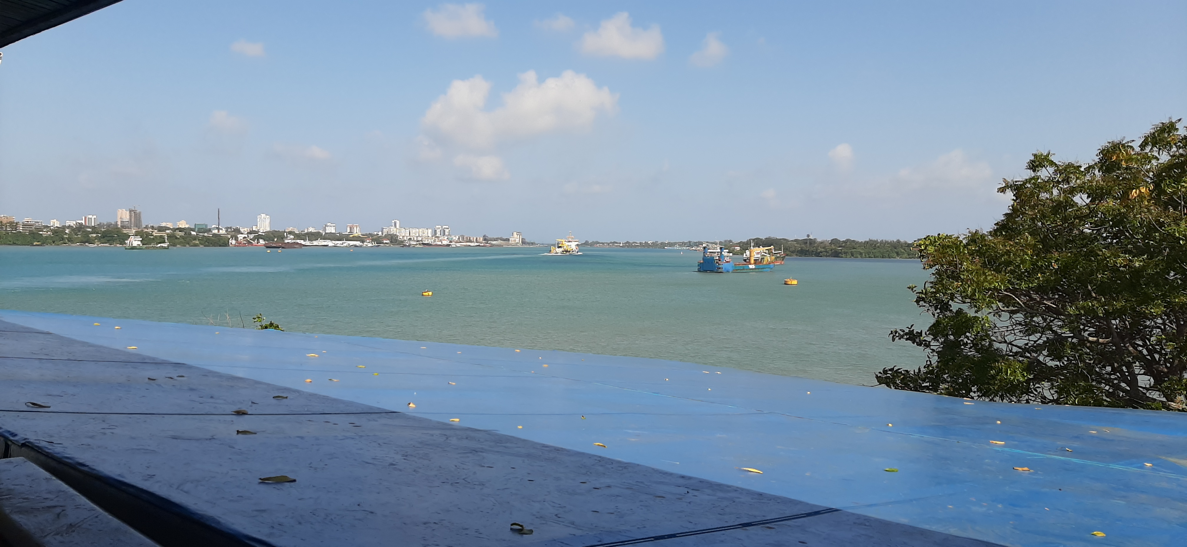 This is an image with the theme "Africa on the Move or Transport" from: Kenya